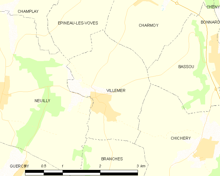 Map of French municipality Villemer